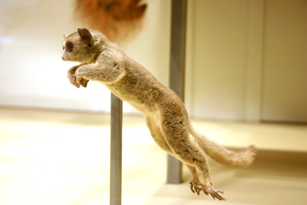 Galago moholi